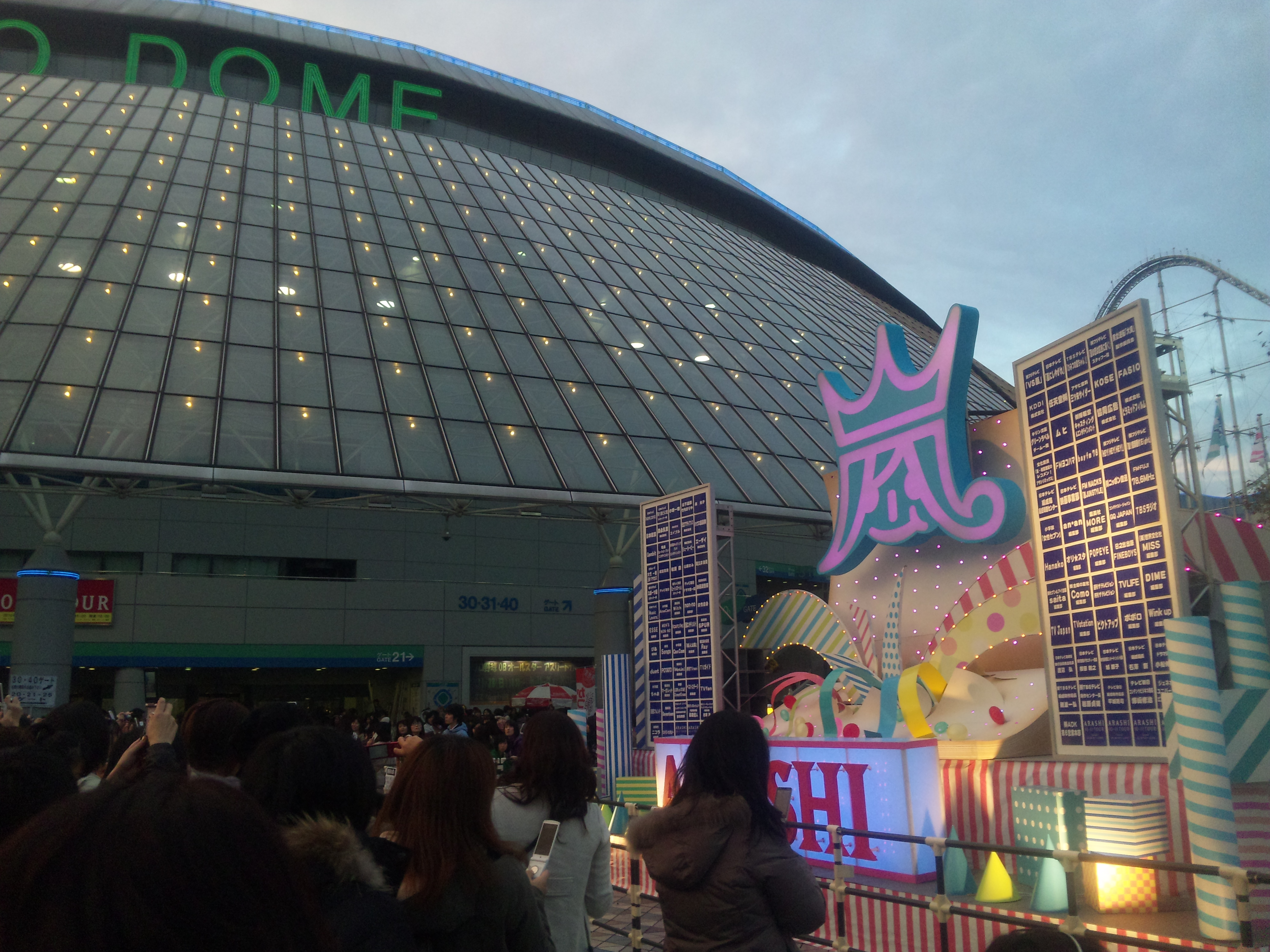 untitled